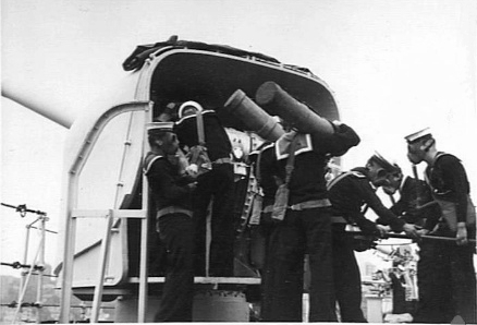 Gun crew of Australian cruiser HMAS Adelaide wearing gasmasks, load a BL 6-inch Mk XII gun. The 2 men in foreground carry cordite cartridges, still in their storage cases, on their shoulders. See also File:HMAS Adelaide 6 inch gun crew 1939 AWM 000055.jpeg for a view of same scene from the other side.